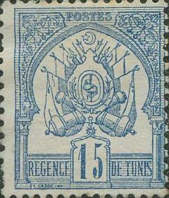 15 Tunisian Franc Stamp, French Protectorate (Régence de Tunis), Tunisia